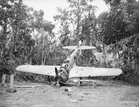 Hollandia, Dutch New Guinea. c. 1944-05. The remains of a destroyed Japanese "Oscar" fighter aircraft in its dispersal bay after the area had been attacked and strafed by P40 Kittyhawk aircraft of No. 78 (fighter) wing RAAF.